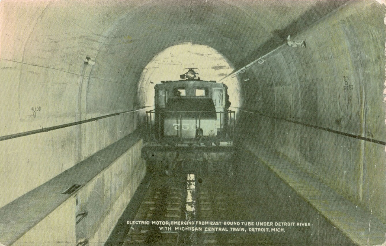 Postcard picture of electric train emerging from eastbound tube of railroad tunnel underneath the Detroit River. Opposite side of postcard reads: "261 Published by the Detroit News Company, Detroit, Mich." along righthand edge